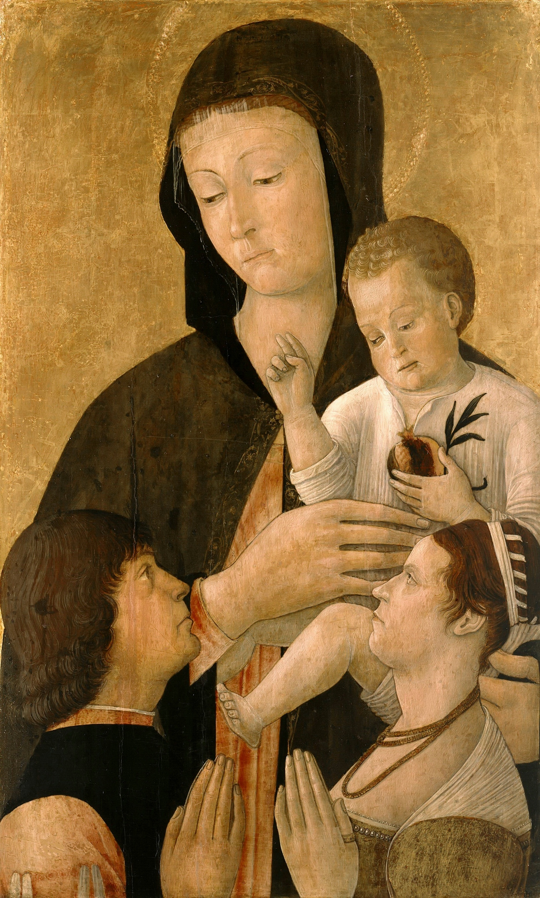 Gentile Bellini. Madonna and Child with Donors. c. 1460. Gemäldegalerie, Berlin, Germany.